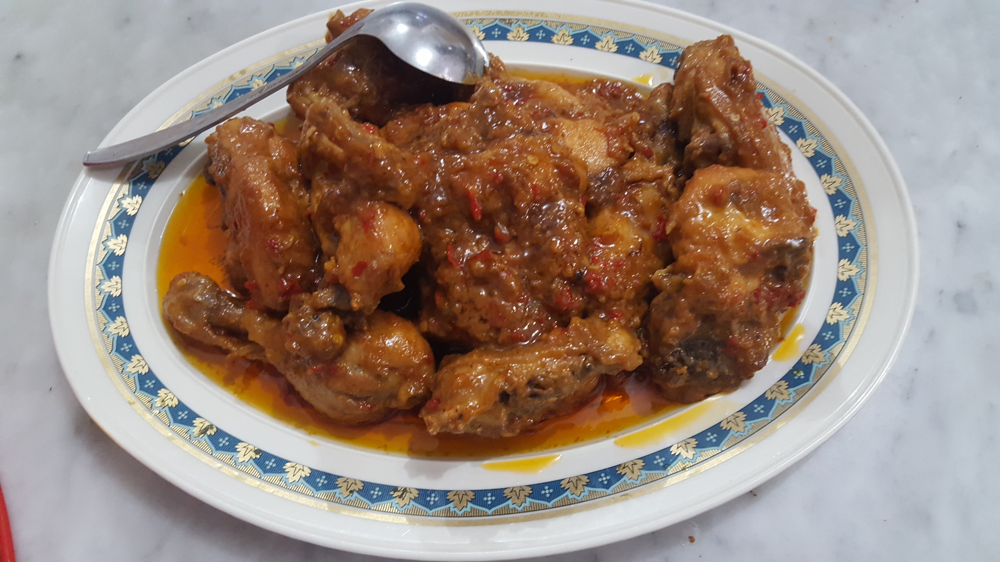 chicken with rujak gravy